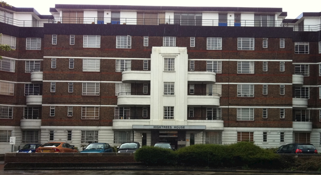 Photograph of High Trees House, Clapham, London, as in the Central_London_Property_Trust_Ltd_v_High_Trees_House_Ltd court case.